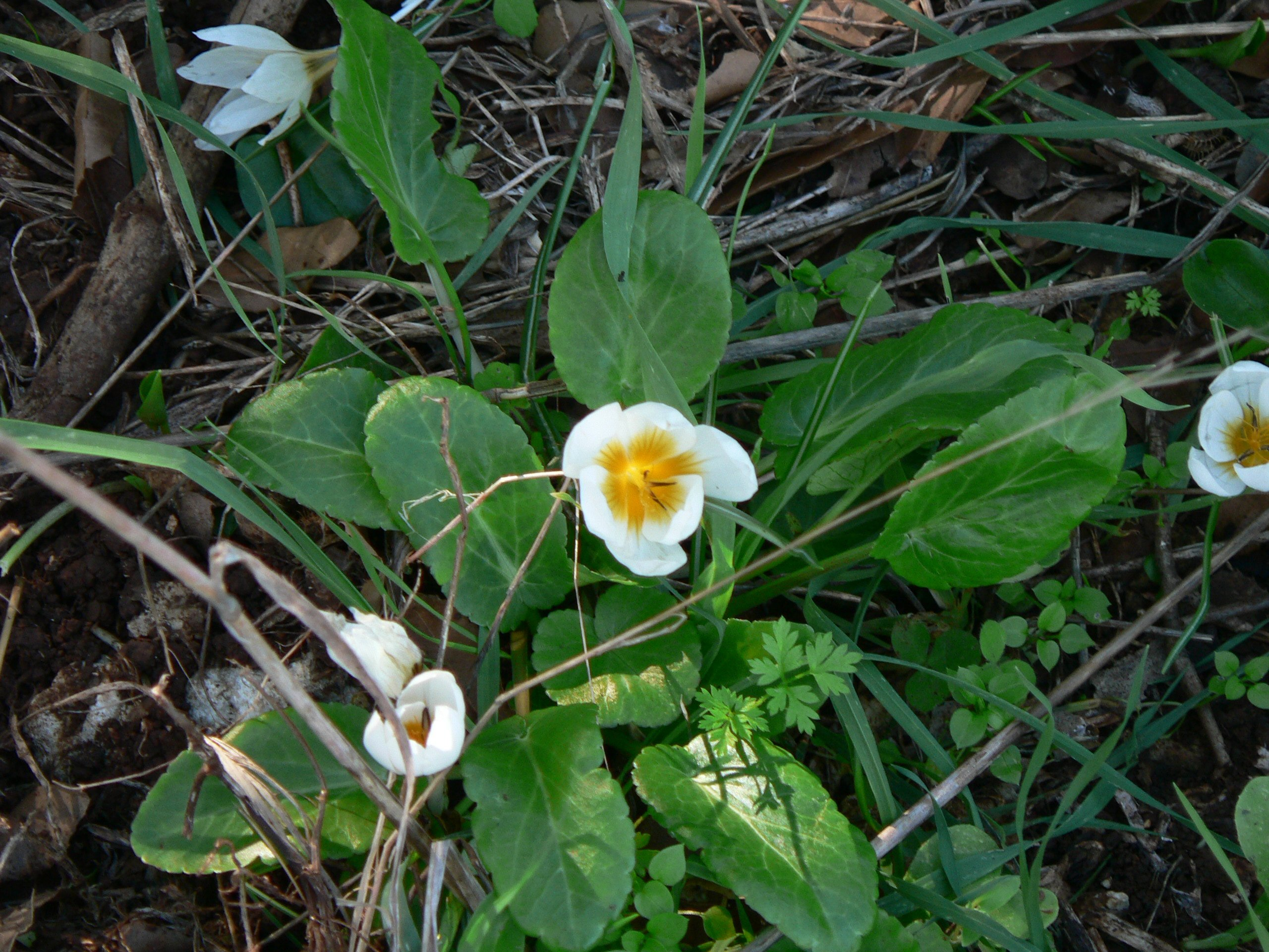 Karkom כרכום Author: MathKnight